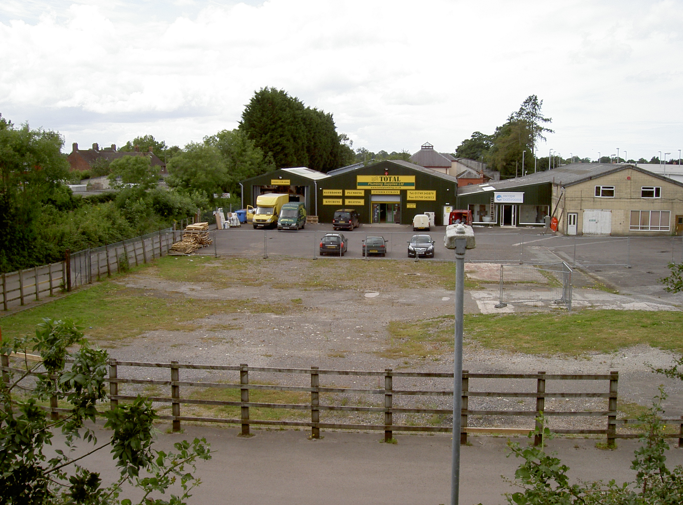 Looking from the bridge